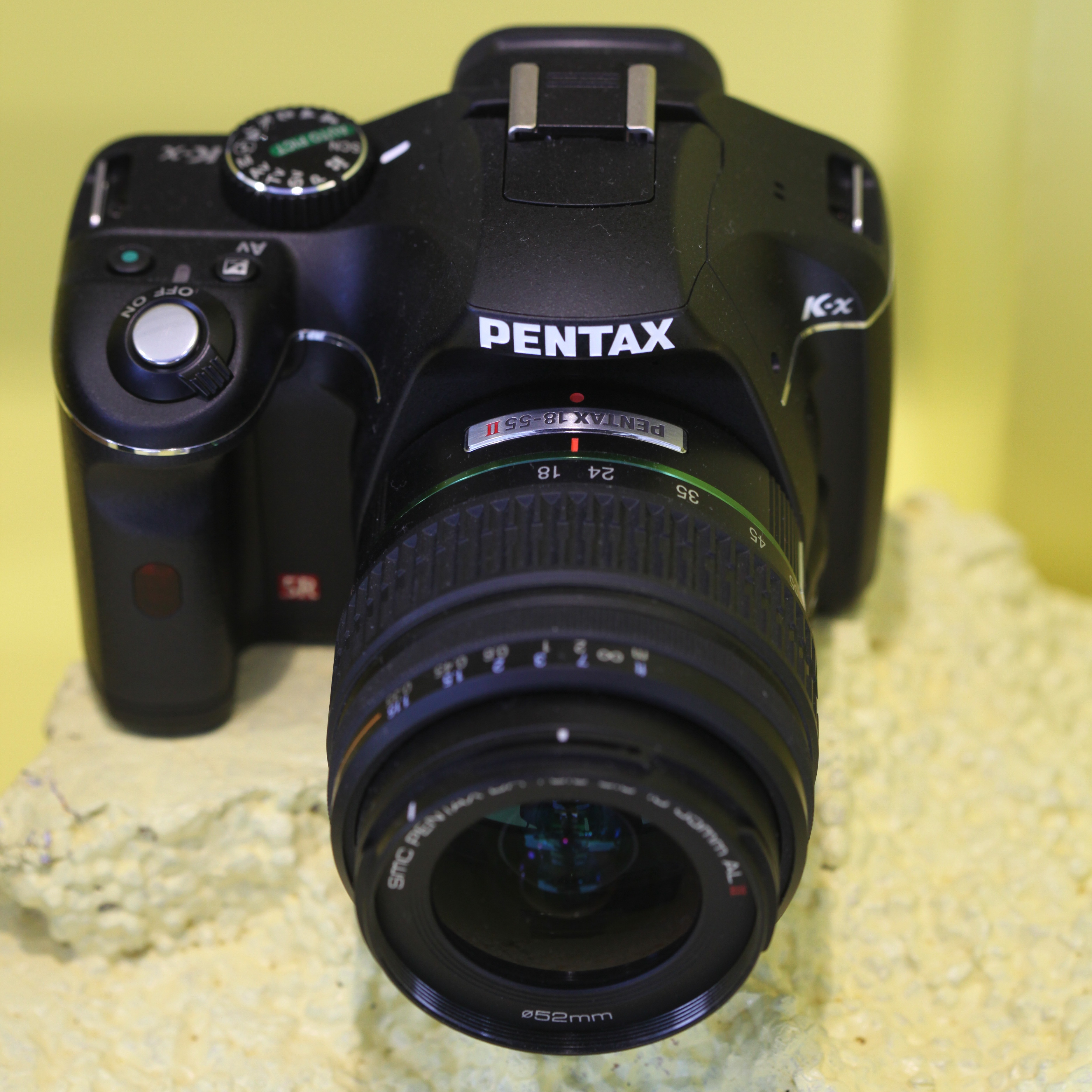 Pentax K-x